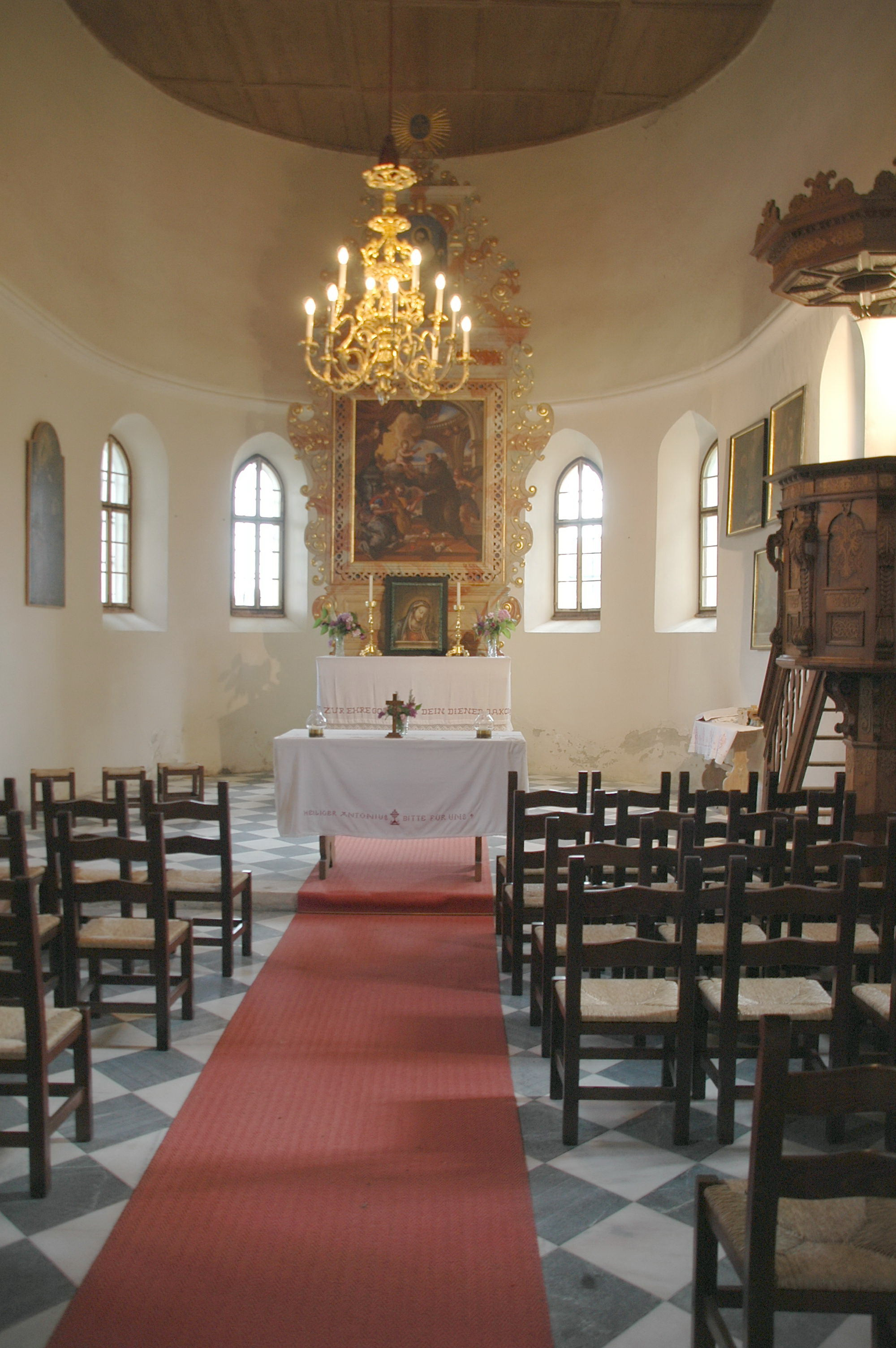 Church-interior in Tauern, Ossiach, Carinthia, Austria